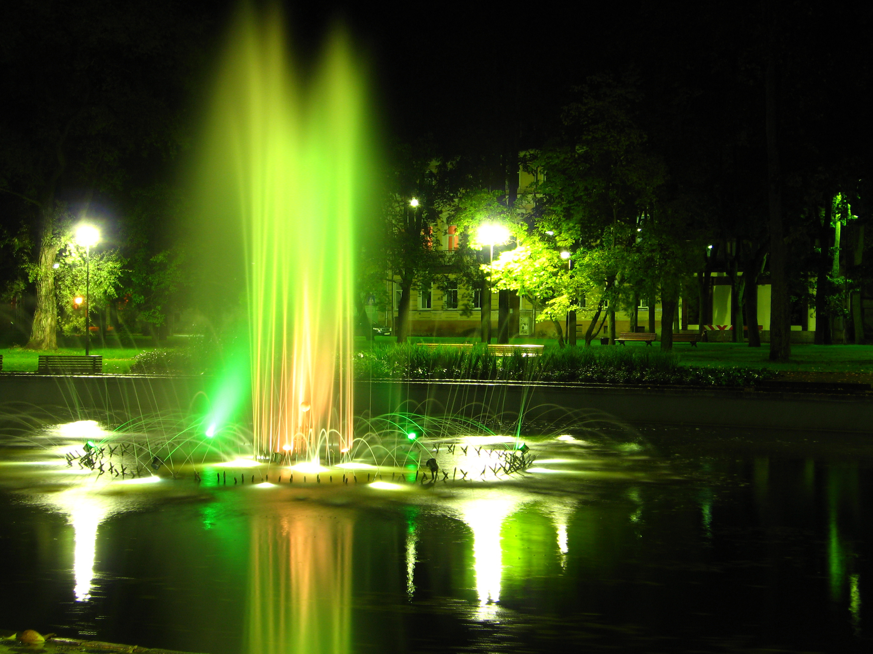 Fountain in Dubrovin Park, Daugavpils, Latvia.